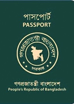 The new cover of Bangladeshi passport